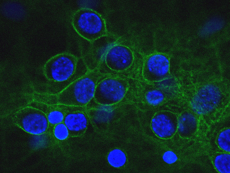 Image of rat neurons grown in tissue culture and stained with antibody to alpha-II spectrin in green and DNA in blue. The submembranous cytoskeleton is clearly seen in this confocal immunofluorescence image. Antibody and image generated by EnCor Biotechnology Inc.